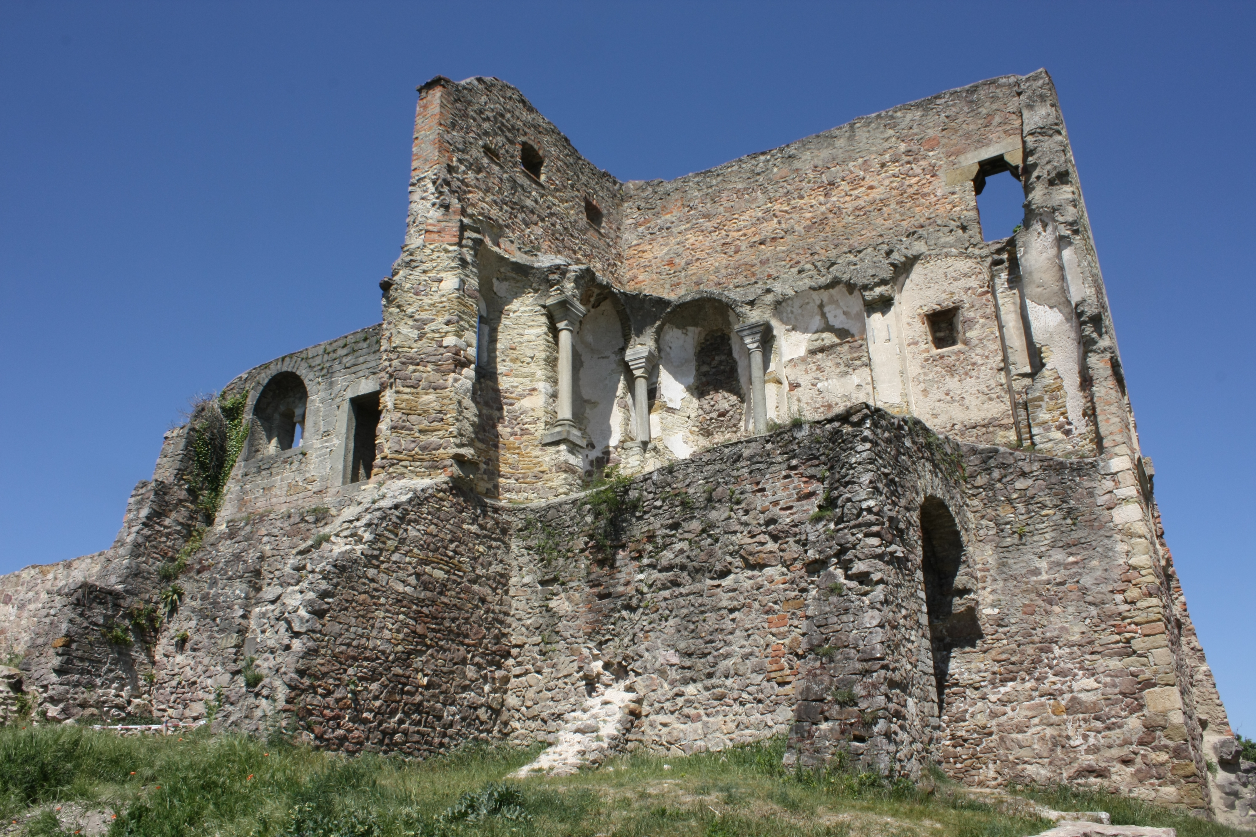 The castle ruins at Donaustauf.